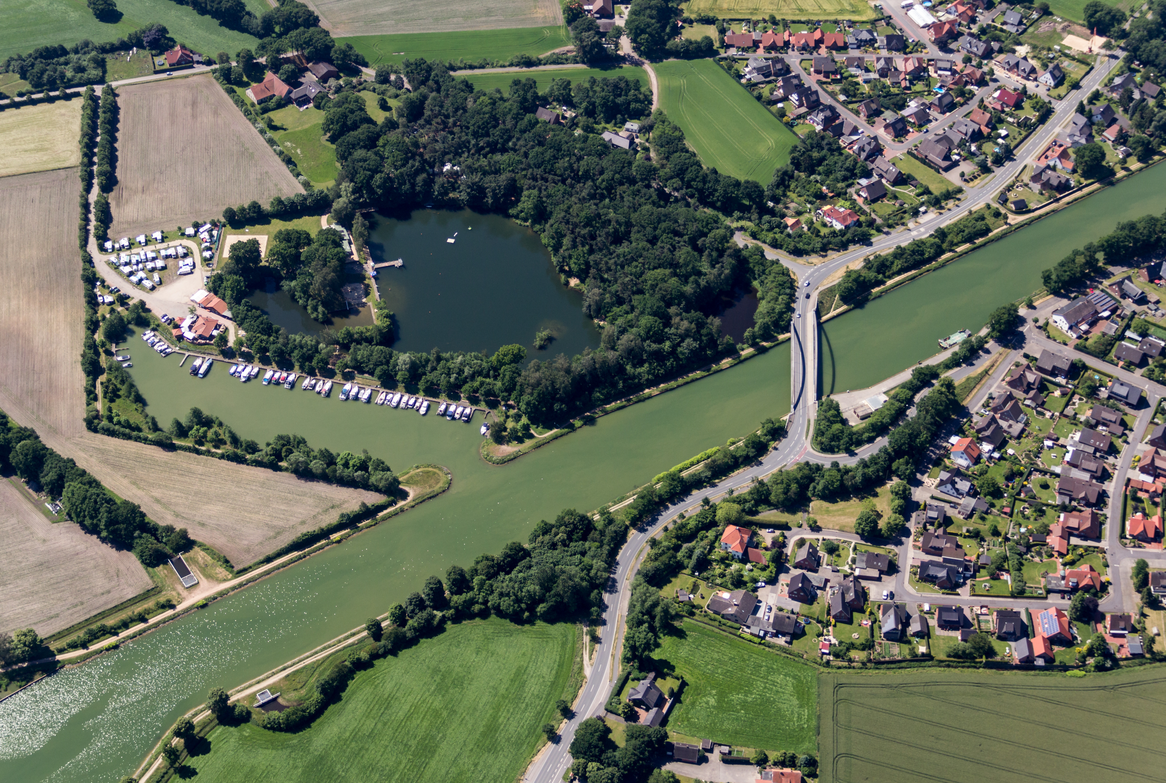 Mittelland Canal near Steinbeck, Recke, North Rhine-Westphalia, Germany